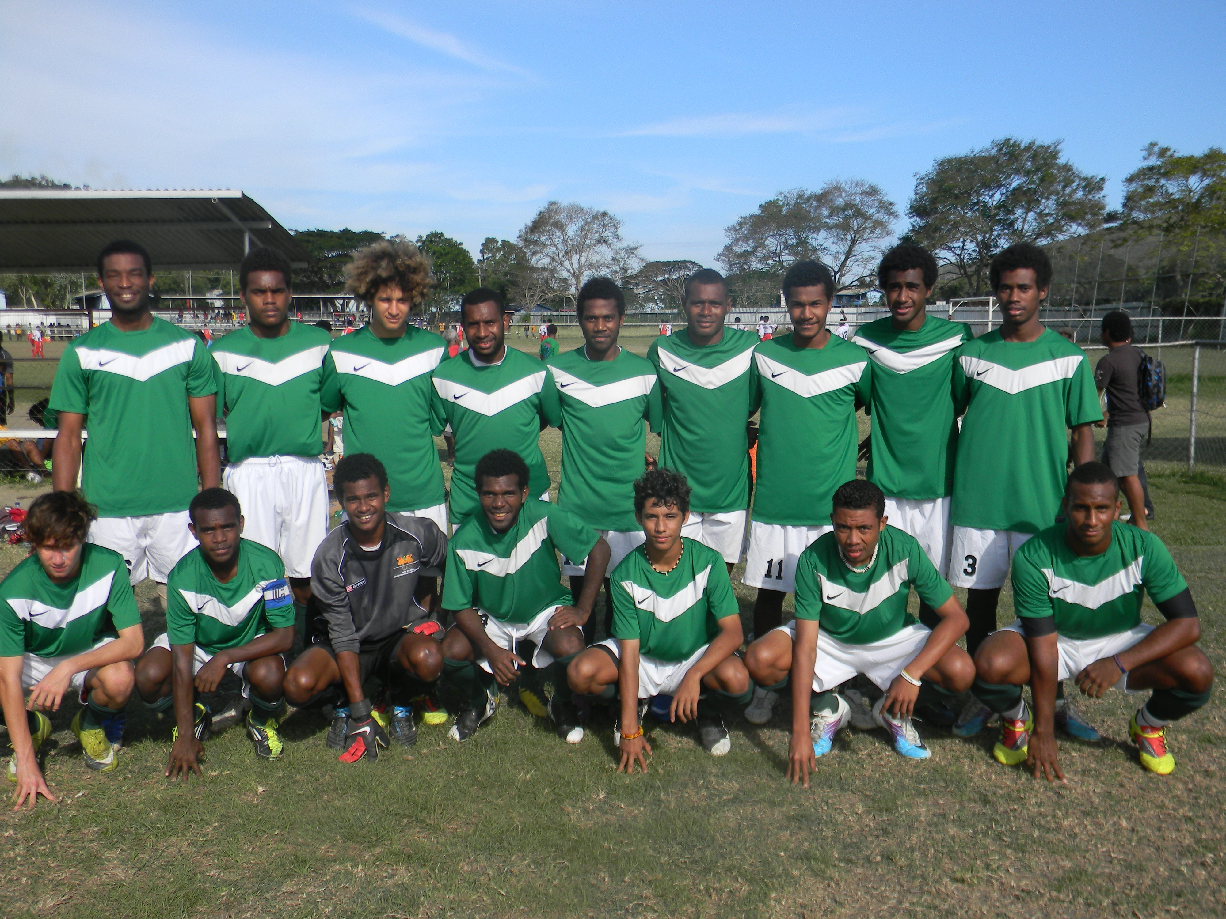 at bisini park, group photo during a league game